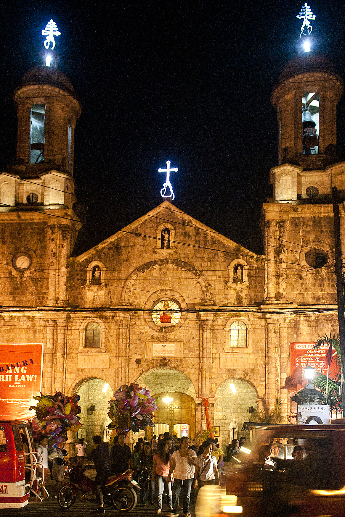 Shot with the busy street as foreground, the Cathedral remains as symbol of faith and devotion of Bacolodnons and Filipinos